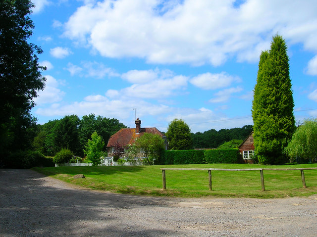 Titty Hill Farm The small hamlet of Titty Hill consists of the eponymously named farm and a couple of other houses. Linked to the outside world by Lambourne Lane which swings from west to north at this point. The restricted byway heads south towards Wispers Wood Cottage